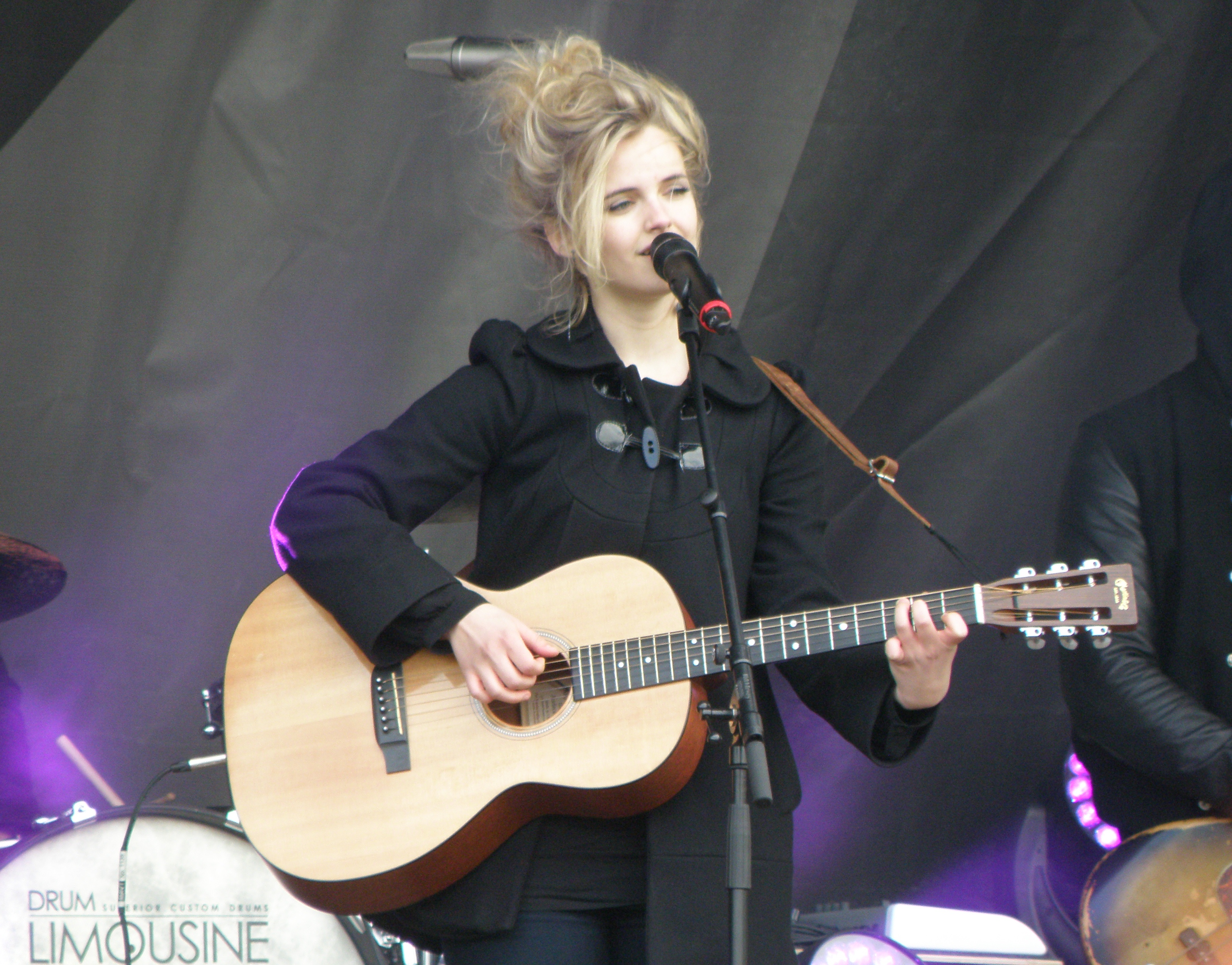 Ida Østergaard Madsen is a Danish singer and songwriter, who won the X Factor talent show 2012 in Denmark. This photo was taken in Legoland Billund, where she performed at a concert together with Line, Sveinur og Morten Benjamin who became number two, three and four. There was also a former X Factor participant from 2008, Basim, who performed at this concert.